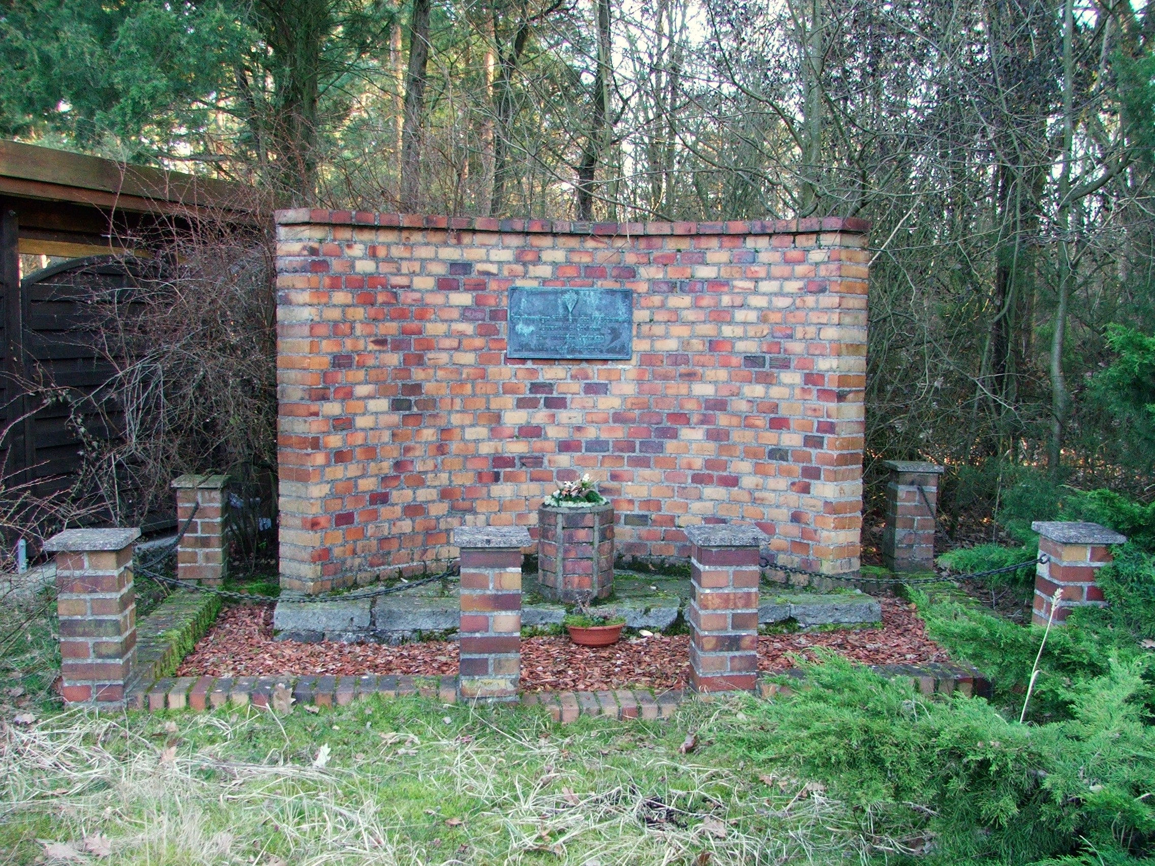 Monument to the prisoners of Schlieben-Berga concentration camp, a labor subcamp of Buchenwald, also known as HASAG Werk Schlieben, in the Berga quarter of Schlieben, Germany